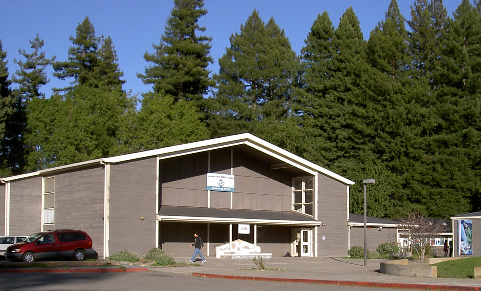 Salmon Creek Middle School in Sonoma County photographed by Stephen Gold on December 7, 2007. Rotated and cropped using Adobe Photoshop Elements.